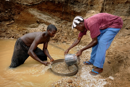 artisan mining This is an image of "African people at work" from Sierra Leone